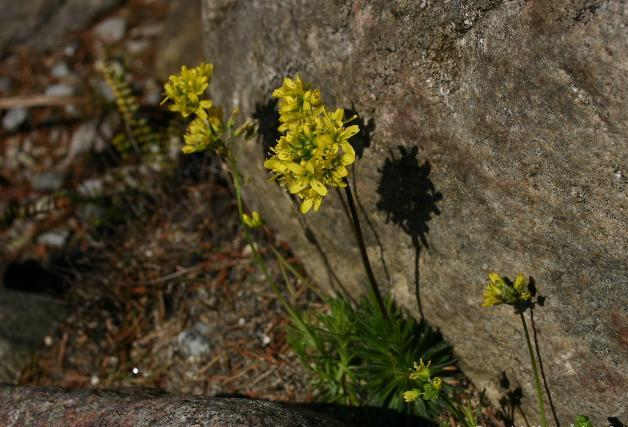 Draba subnivalis: Habit. Photo: Sten Porse